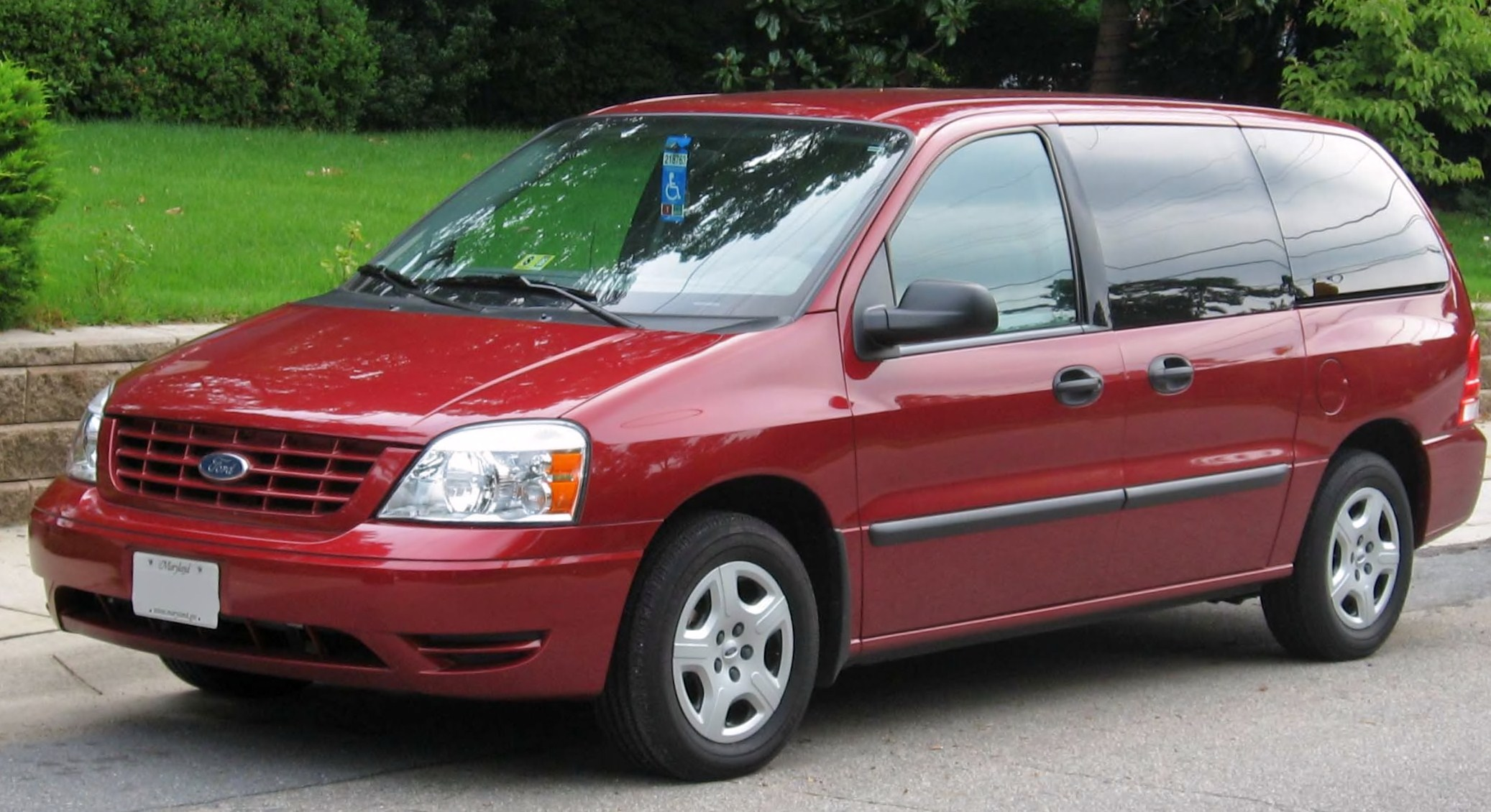 2004-2007 Ford Freestar photographed in USA.